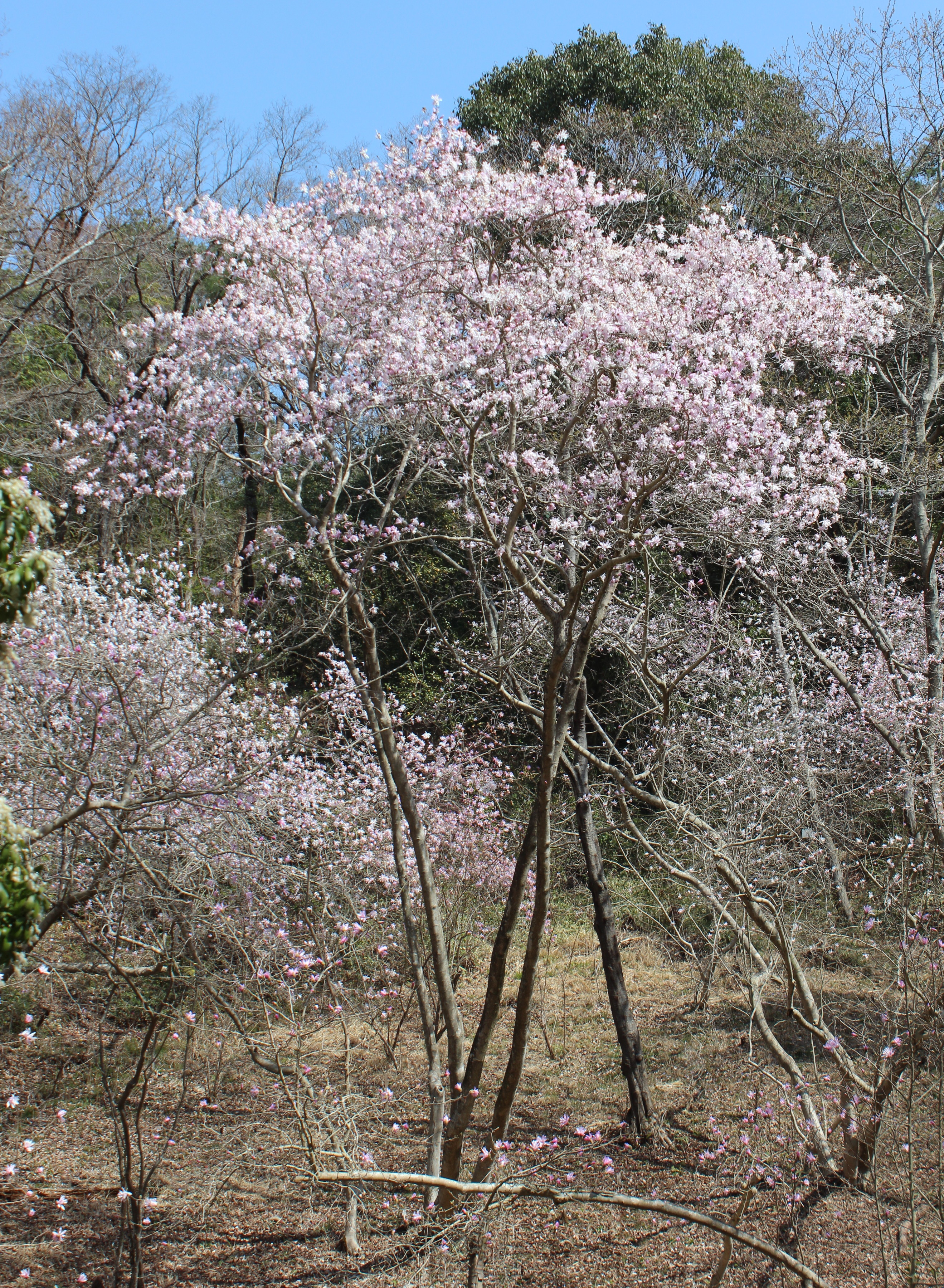 Magnolia stellata in Kasugai, Aichi, Japan.